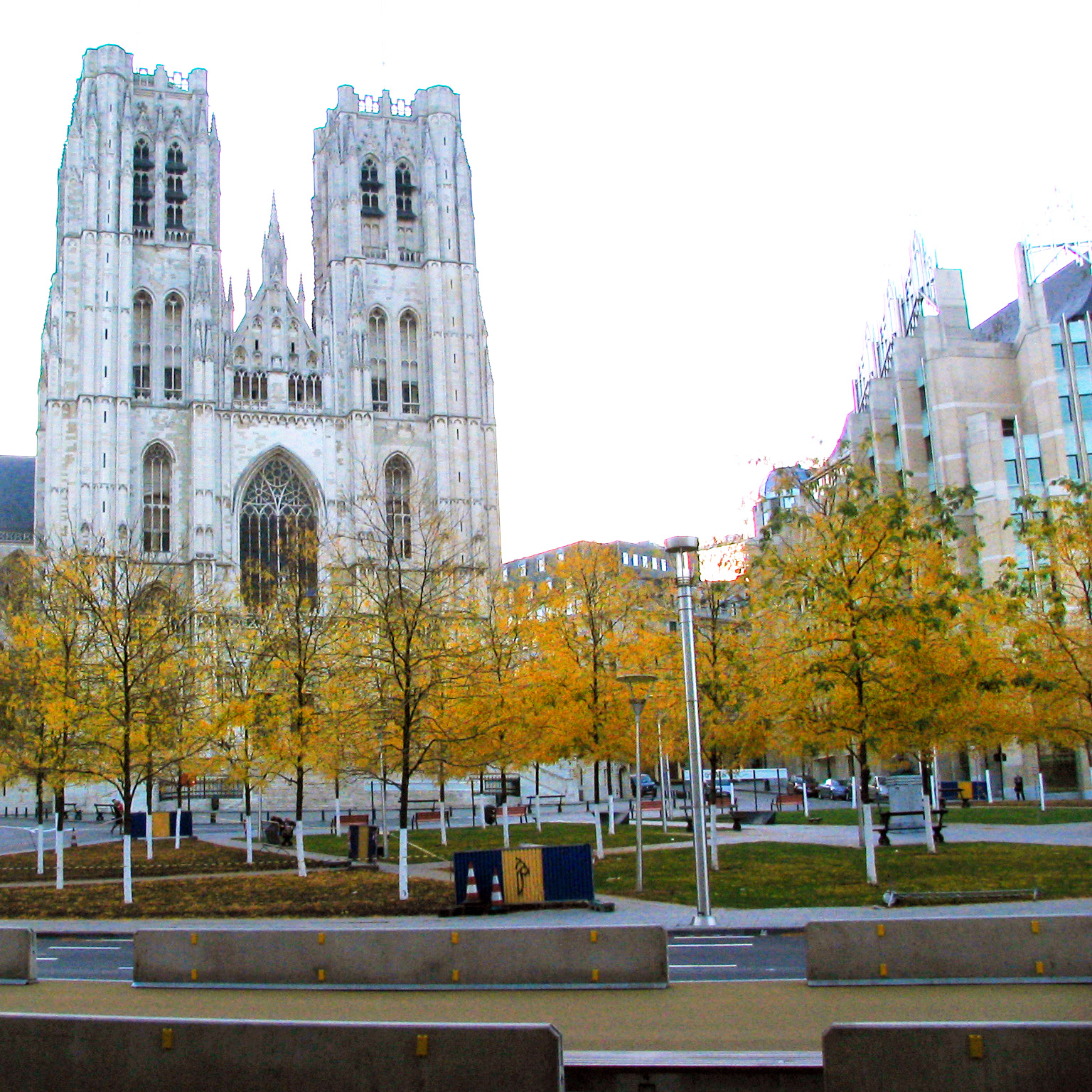 Gleditsia triacanthos f. inermis 'Skyline' in Brussels